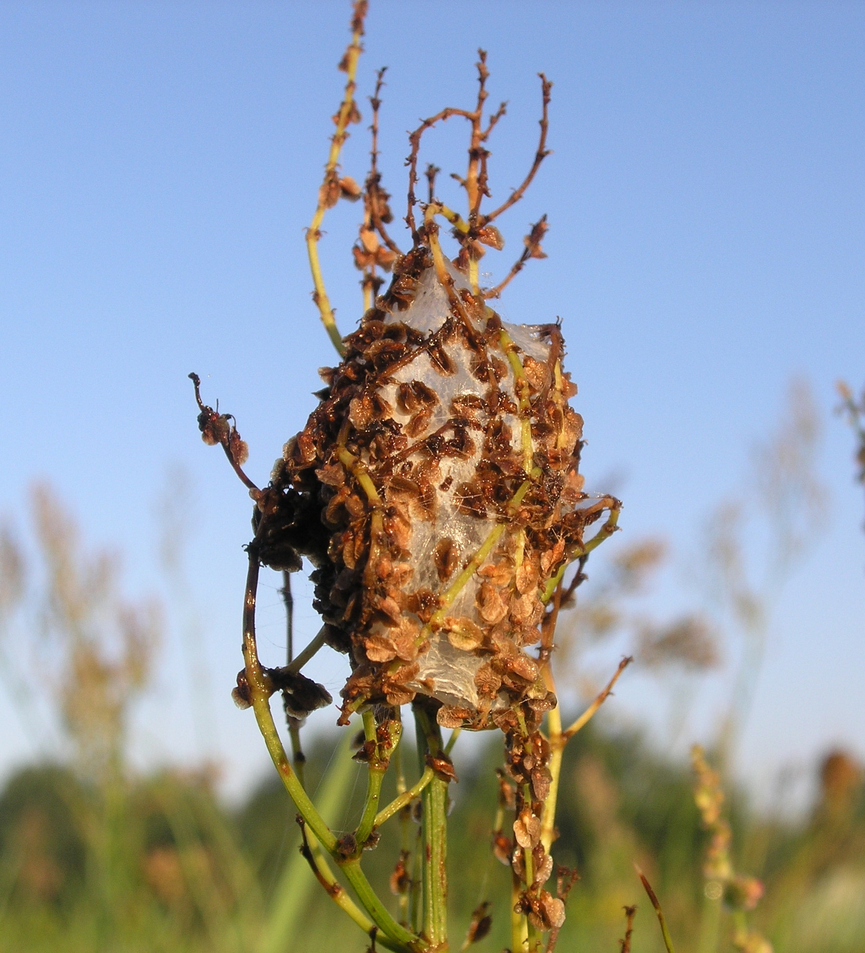 Dornfinger cocoon on airfield Altes Lager, Germany